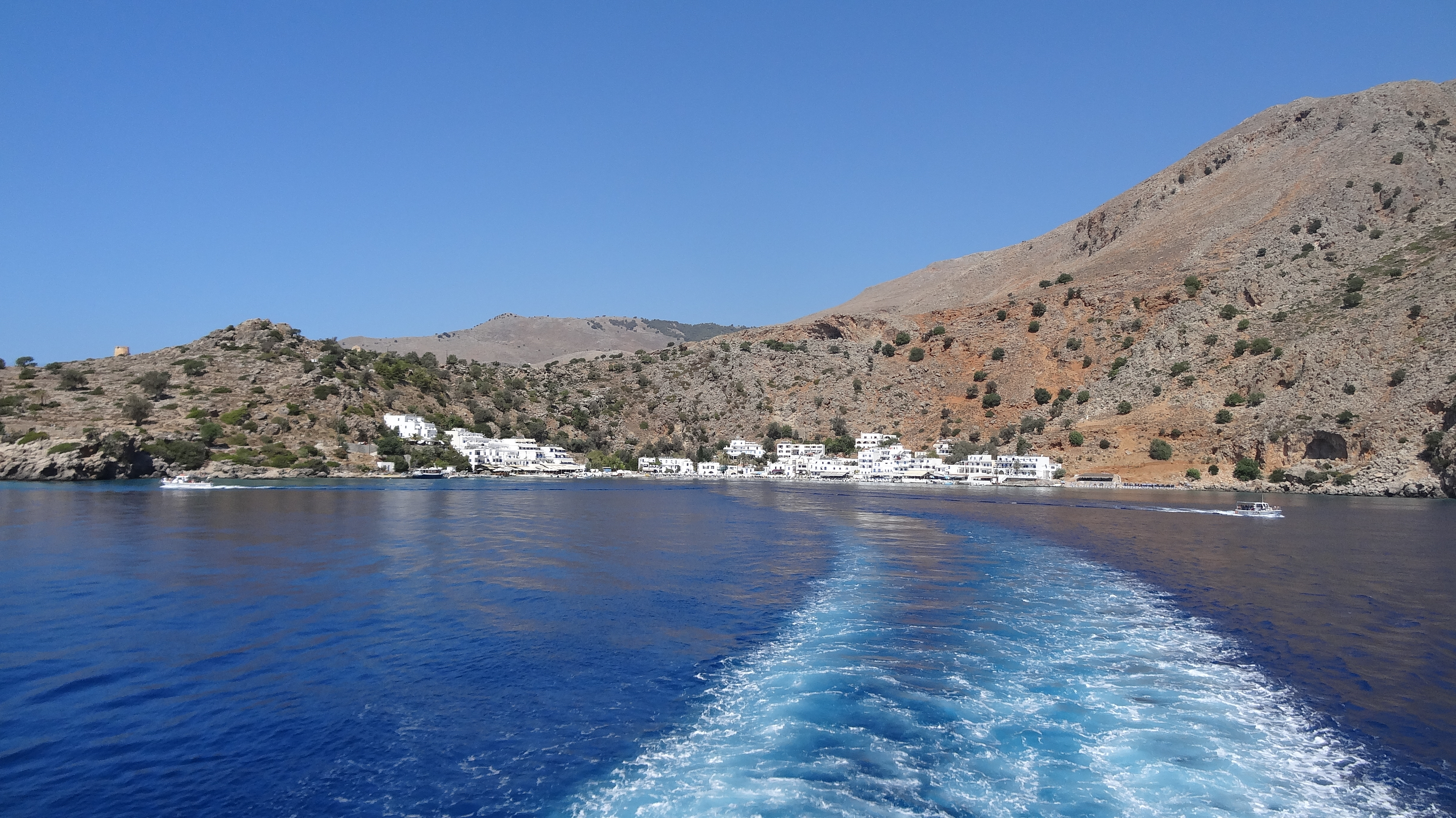 Loutro seen from ferry